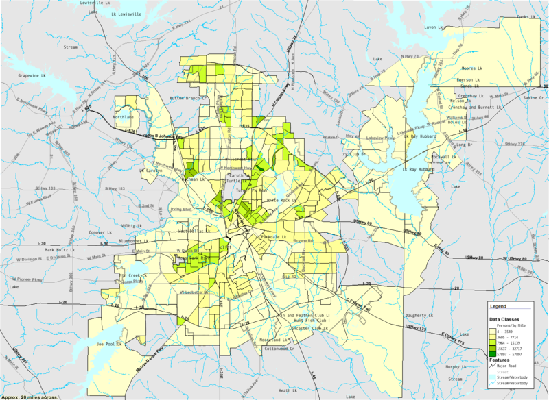 This map shows the city of Dallas, Texas, USA by average number of inhabitants per square mile of land in 2000. Montage of 9 images by Drumguy8800.